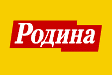 flag Russian party RODINA (2006 year)